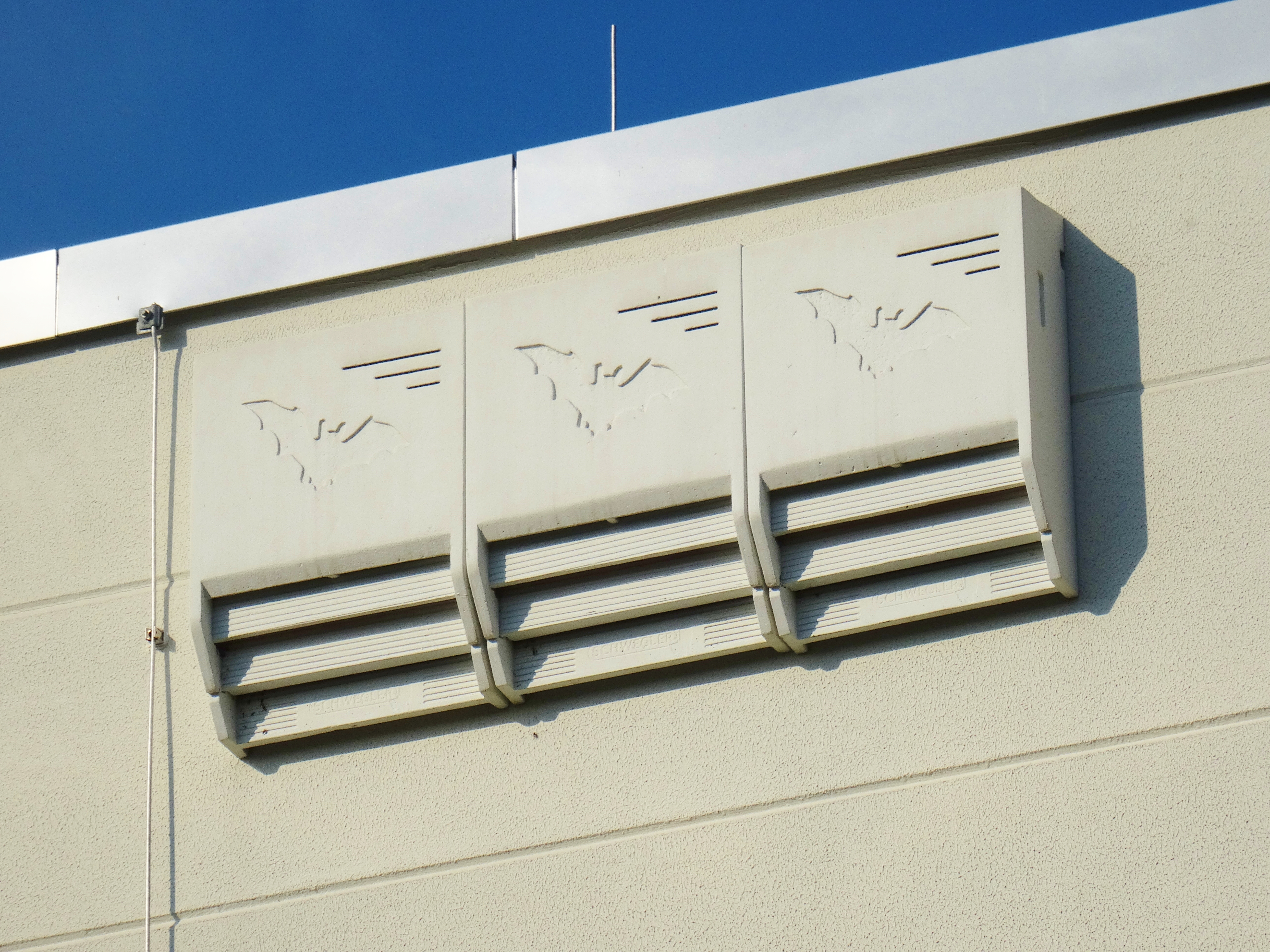 Sledding Path Seminarstraße - Hohe Straße, Pirna